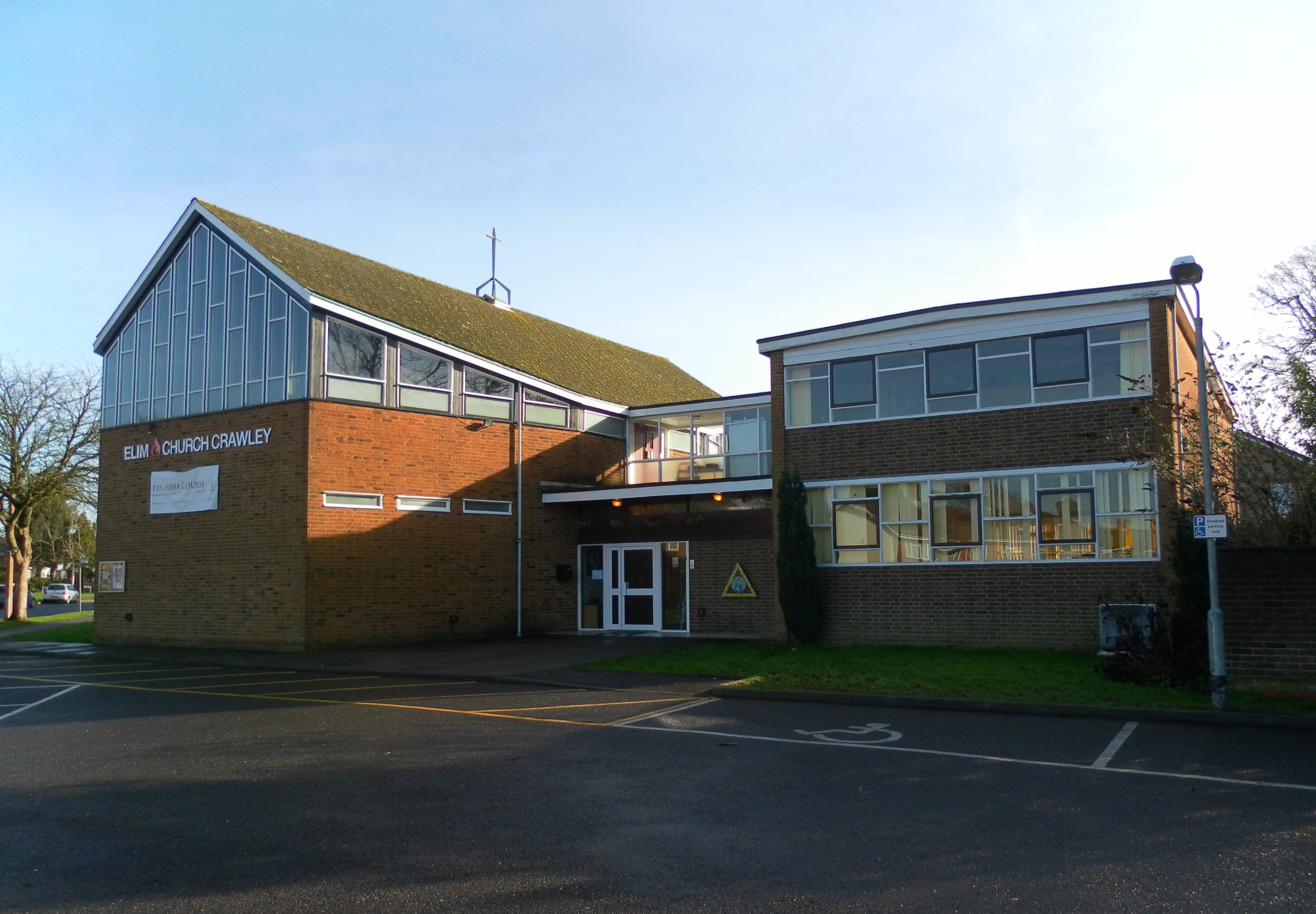 Elim Church Crawley, Ifield Drive, Ifield, Crawley, West Sussex, England. The Elim Pentecostal congregation in Crawley used to worship in a building in Langley Green; but when Trinity United Reformed Church came up for sale after its closure in 2010, they bought it and moved in.